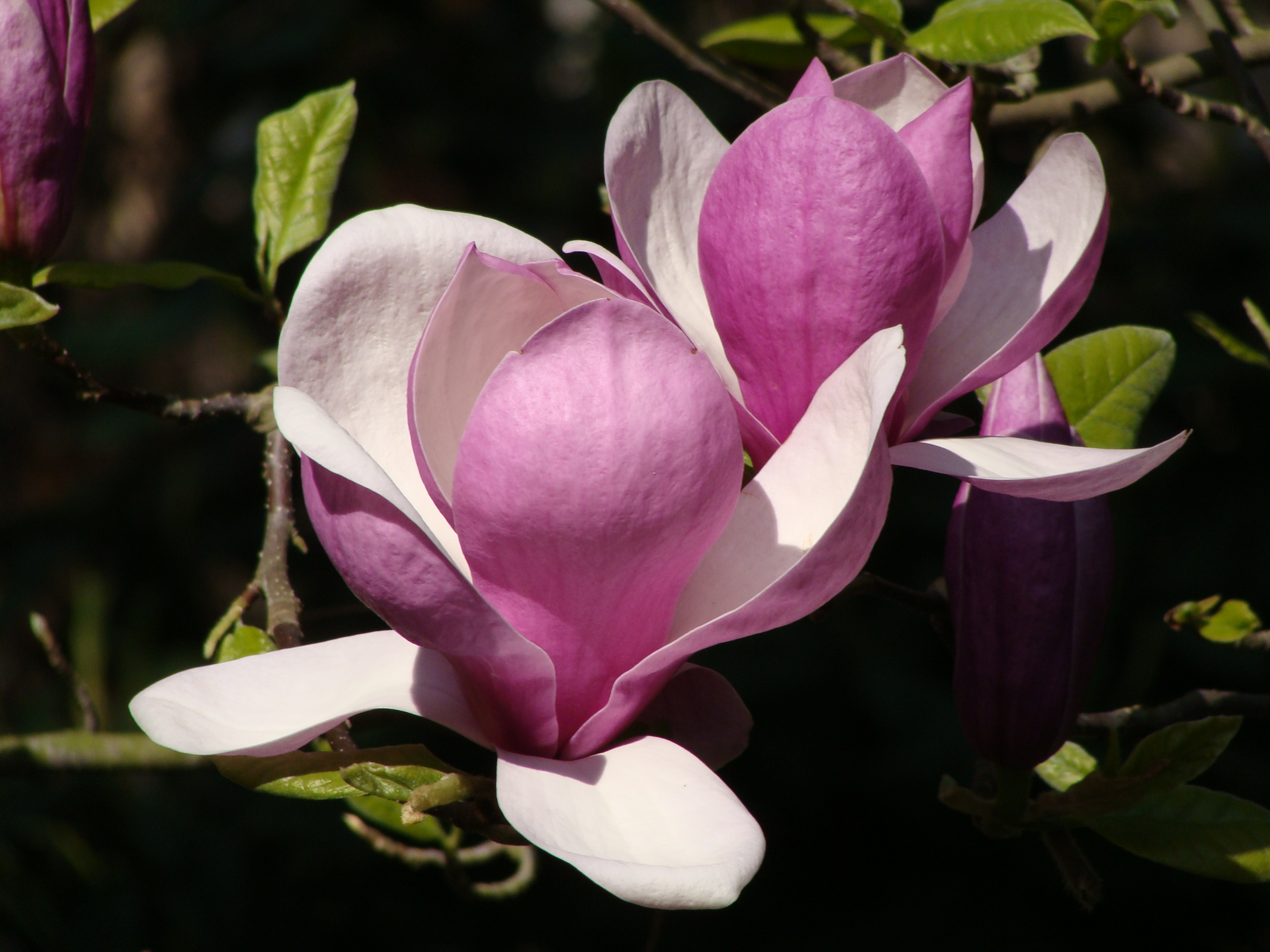 flower of a Magnolia x soulangeana Thiéb.-Bern. "Lennei" (hort.)